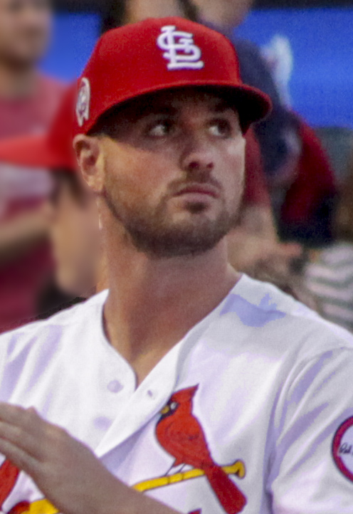 Mike Mayers of the St.Louis Cardinals, 2018.